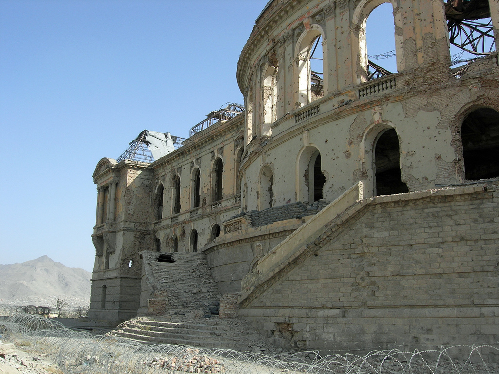 The following is the author's description of the photograph quoted directly from the photograph's Flickr page. "Darulaman palace built in the 1920%u2019s. It has seen better days. It%u2019s war-torn shell stands on a peak which makes it a nice place for a military base. Thus now it is, resplendent in it%u2019s razor wire and gun turrets. More from Afghanistan on my site contained in these posts. CC "